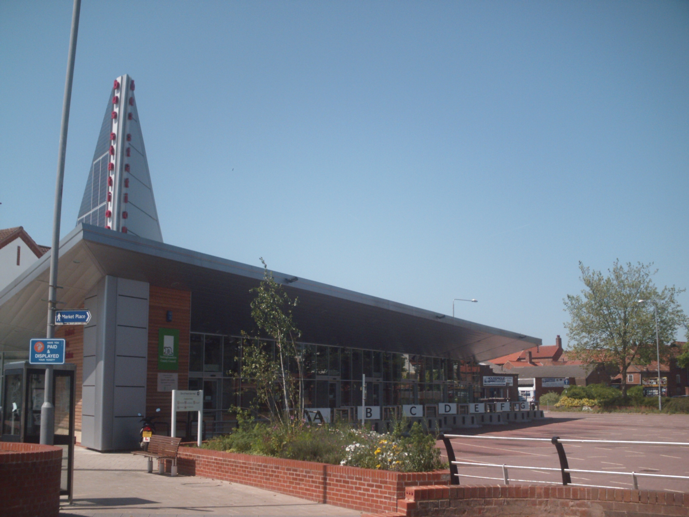 Retford bus station, which in 2008 obtained a highly commended accolade in the UK Bus Awards of that year.